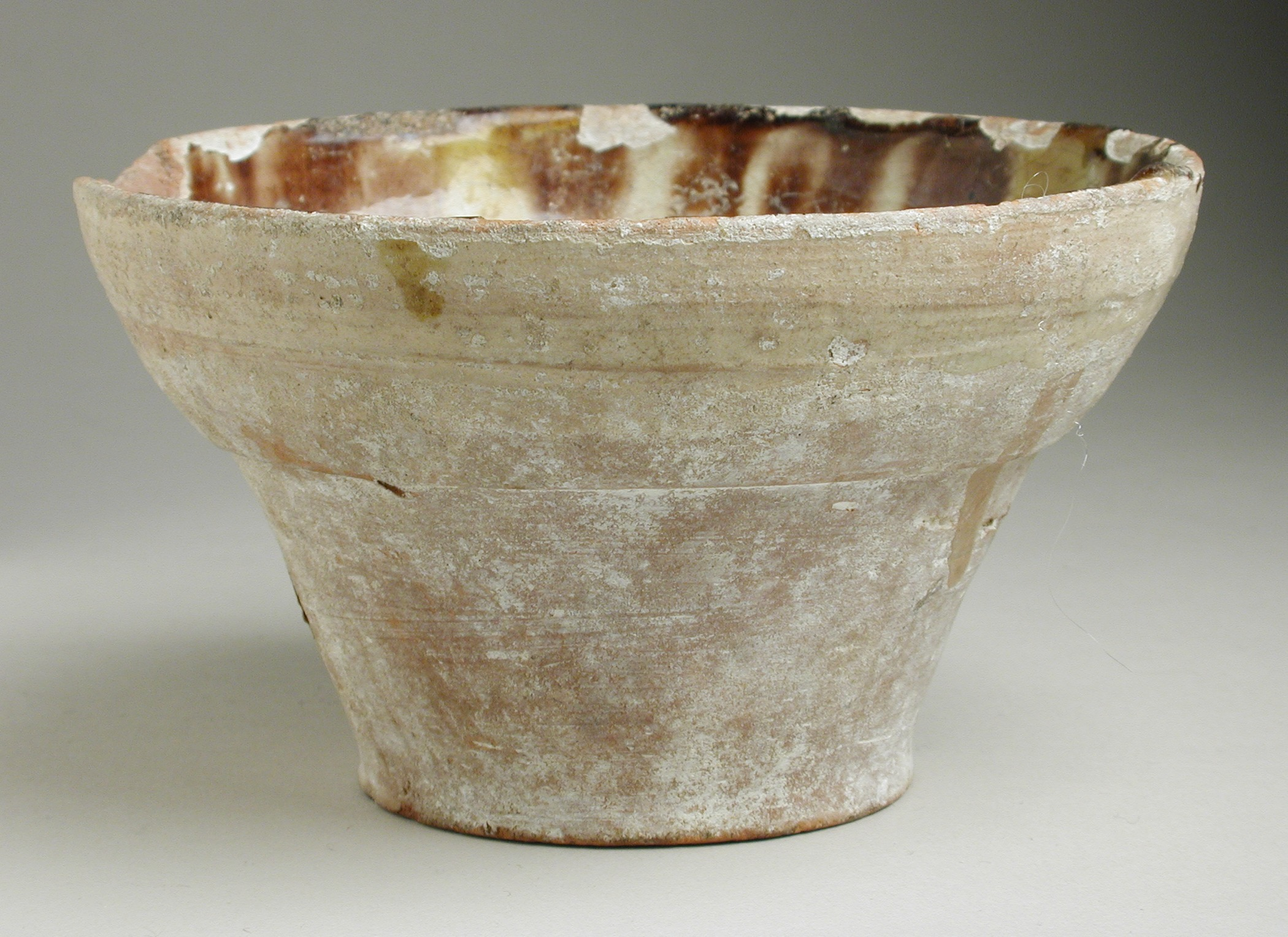 Cyprus (?), Byzantine, 10th century Furnishings; Serviceware Ceramic Gift of Miss Bella Mabury (M.51.4.3) Greek, Roman and Etruscan Art